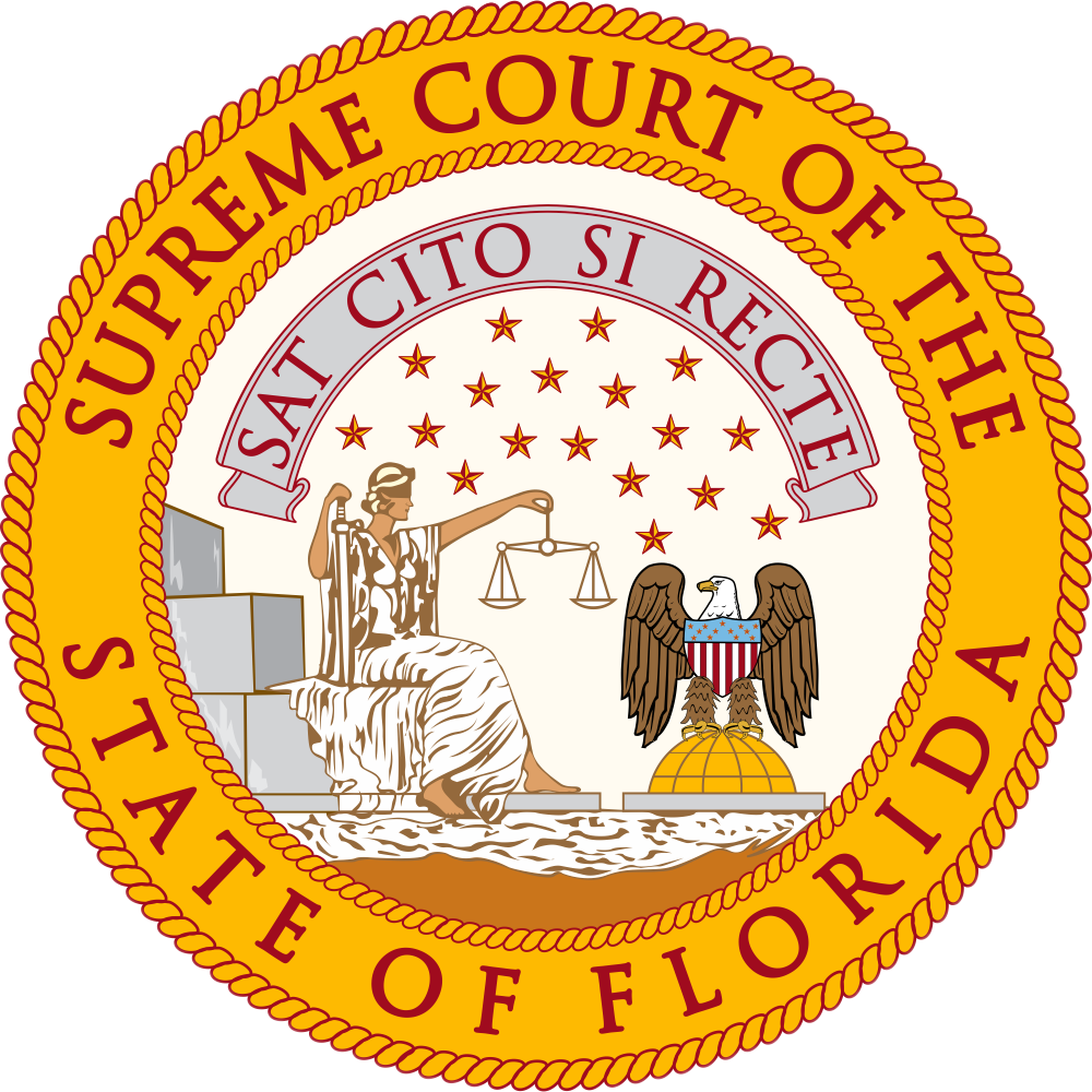 The seal of the Supreme Court of Florida was adopted upon statehood in 1845. It is highly similar to an earlier seal of the territorial court of the Territory of Florida after the state was ceded to the United States by Spain under the Adams-Onis Treaty of 1819.